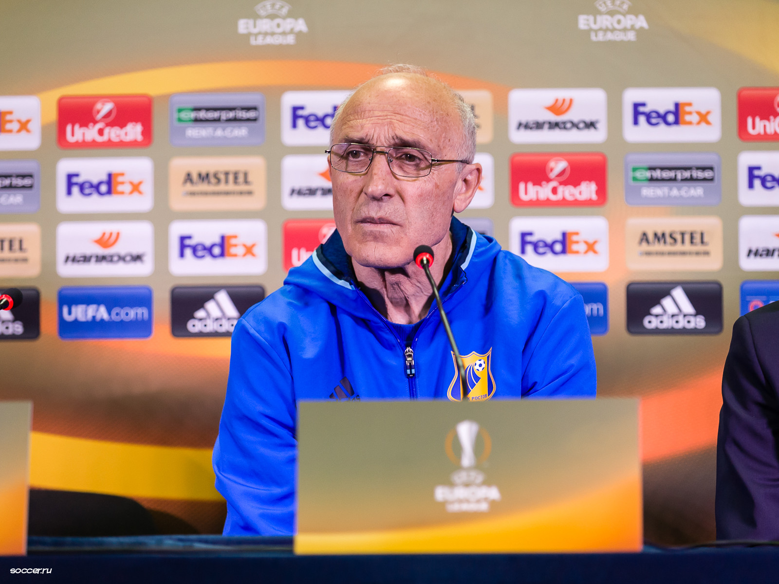 Ivan Daniliants